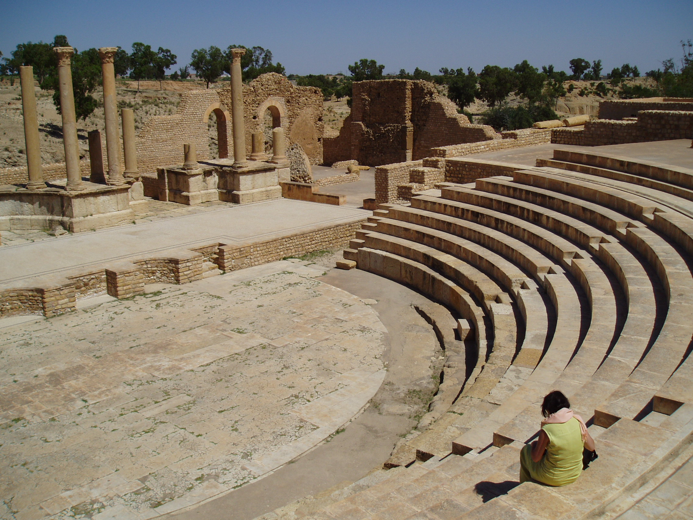 the roman theatre in Sbeitla (Sufetula), Tunisia